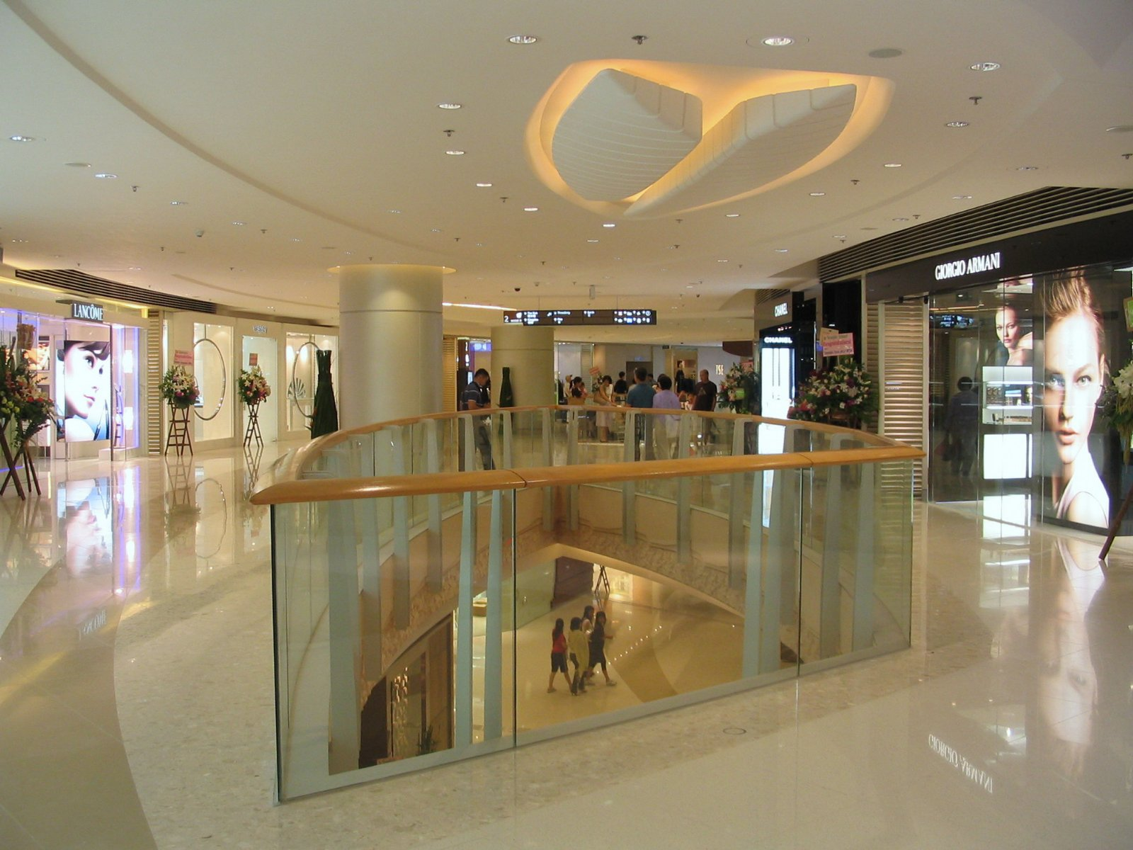 圓方-木區 WOOD Zone of Elements, Union Square